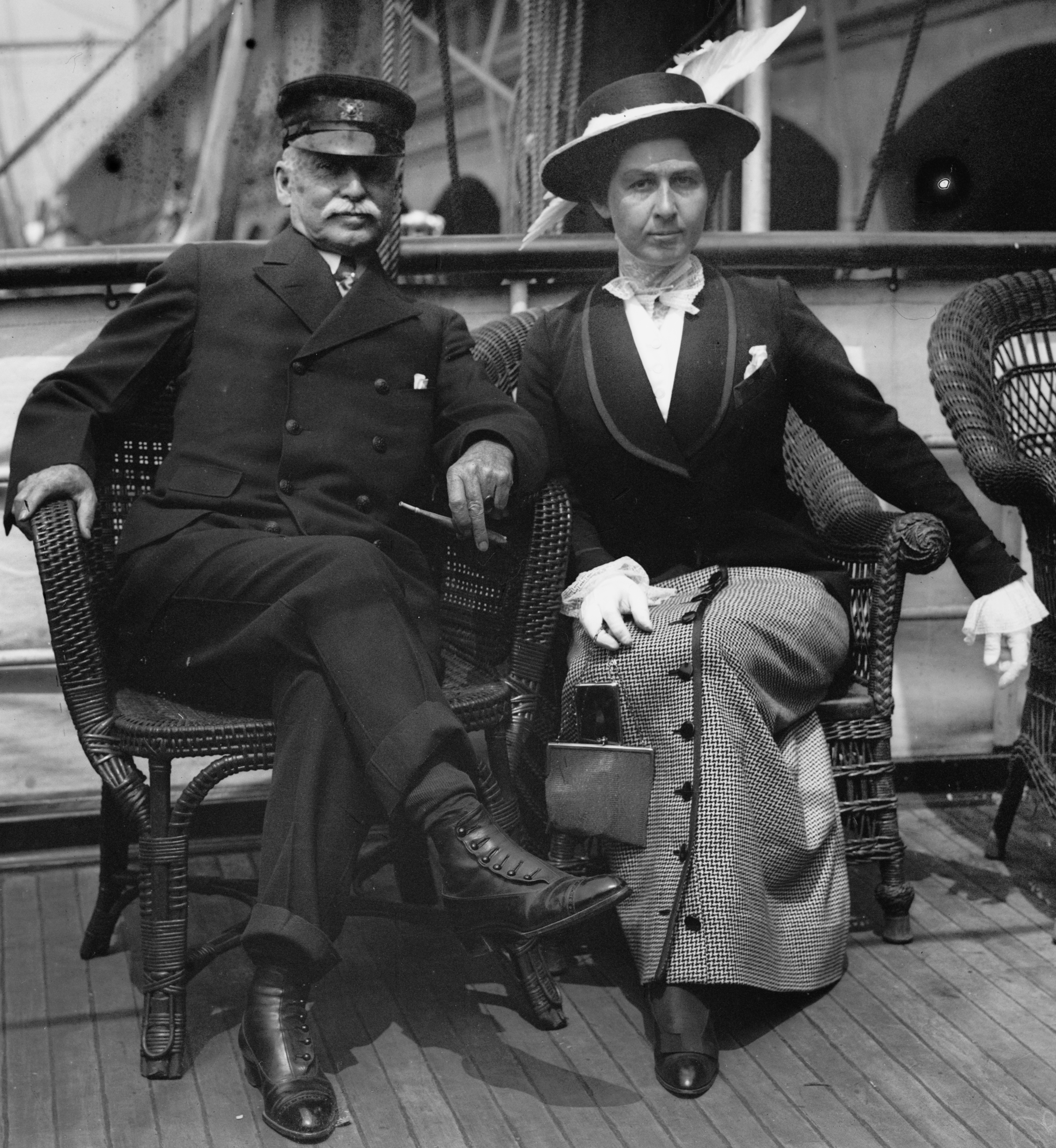 American businessman Colgate Hoyt (1849-1922) and wife Lida Williams Sherman